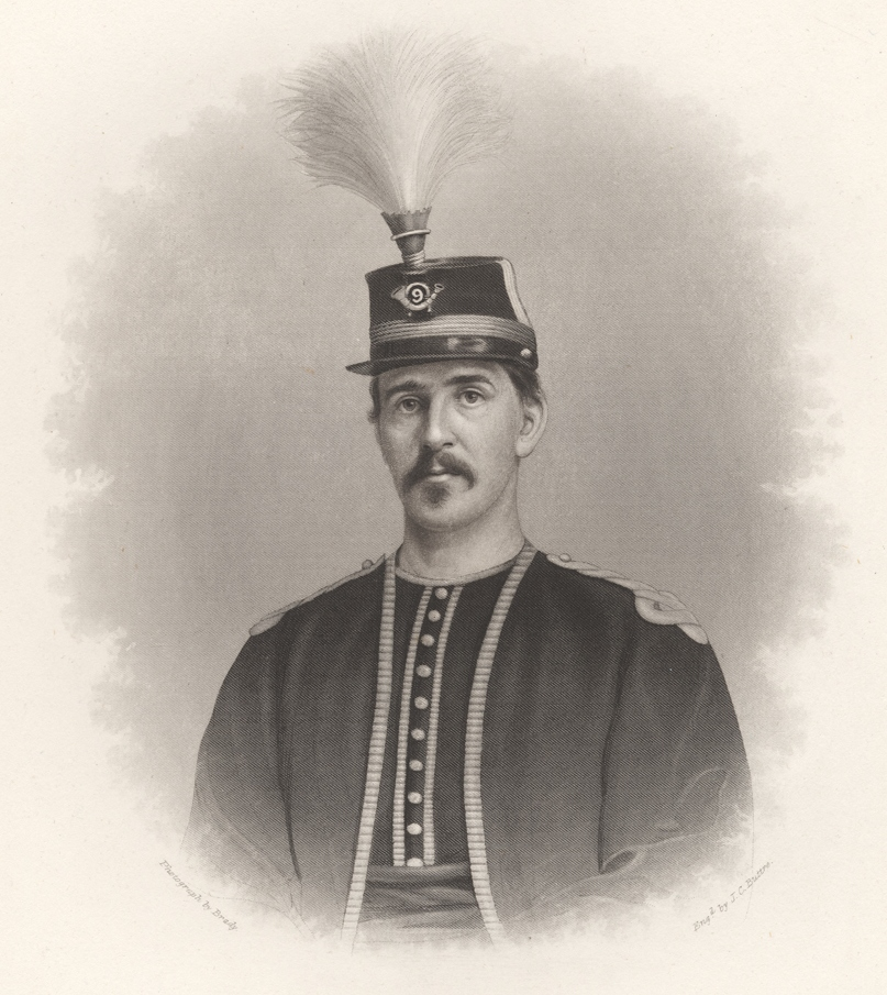 Portrait of a young Rush Hawkins: a 1863 engraving by John Chester Buttre based on a photo by Mathew Brady